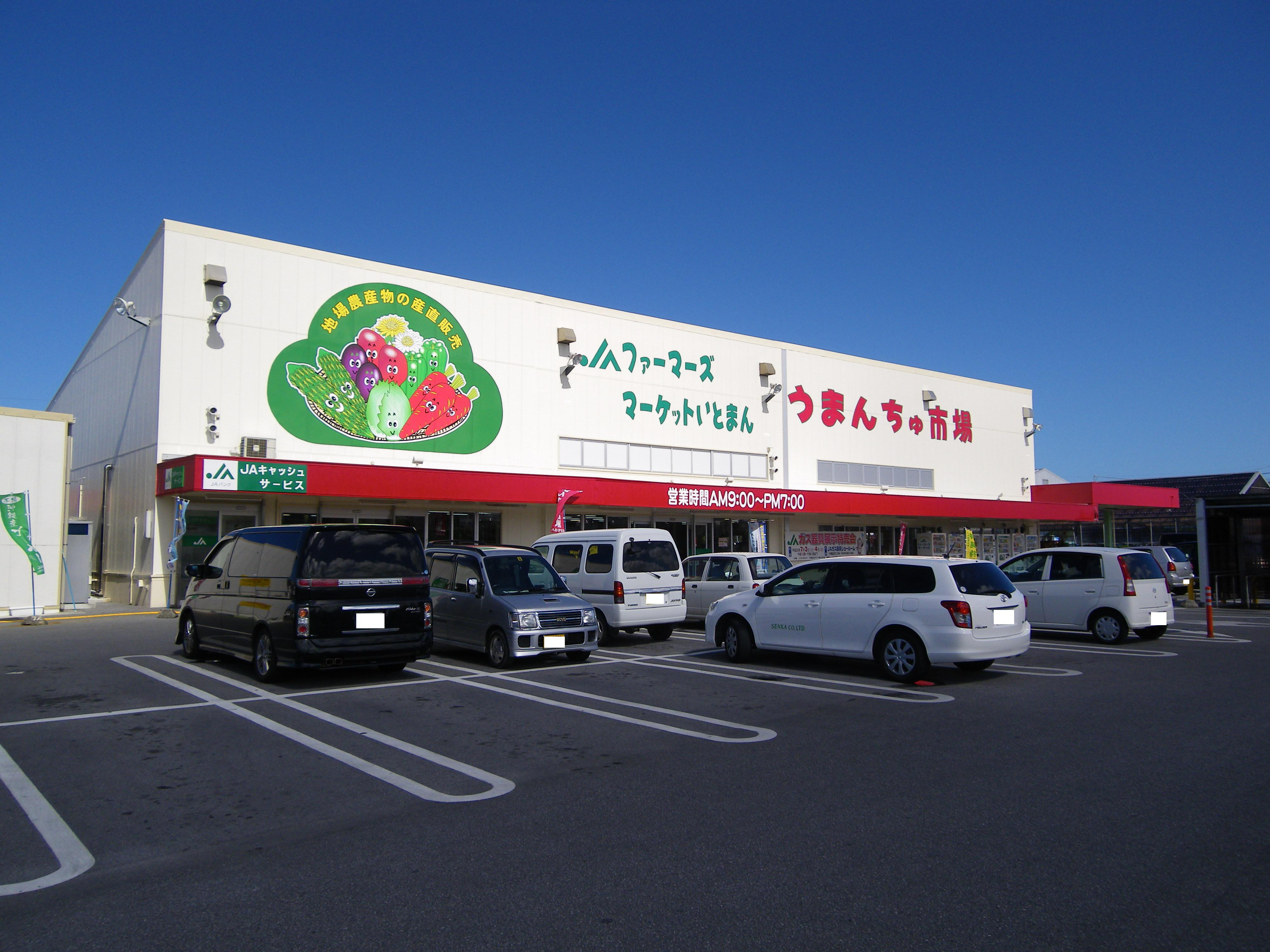 This is the building that farmers can sell crops produced by themselves.